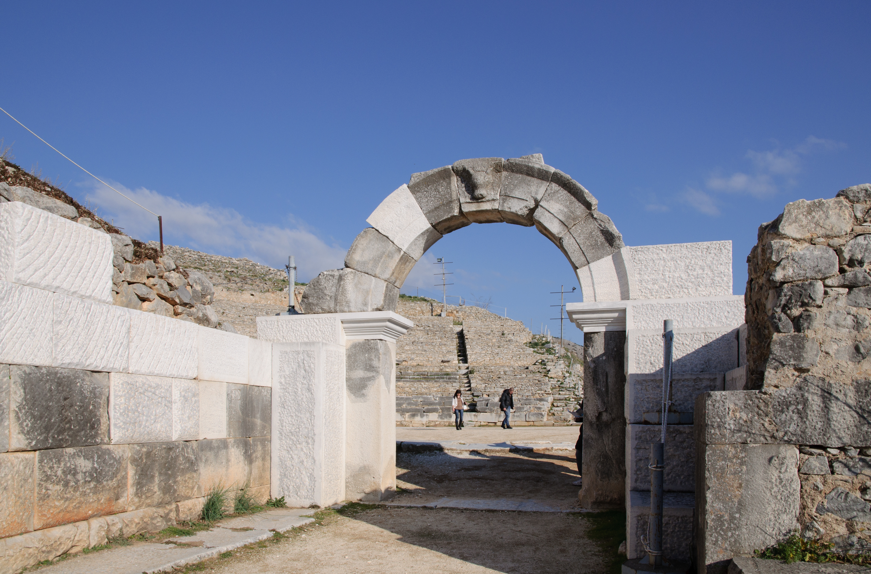 A gate to the ancient theater of Philippi, Kavala municipality, Greece.